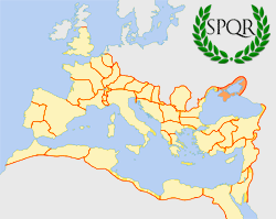 Locator map of the Roman Empire in Hadrian's time.